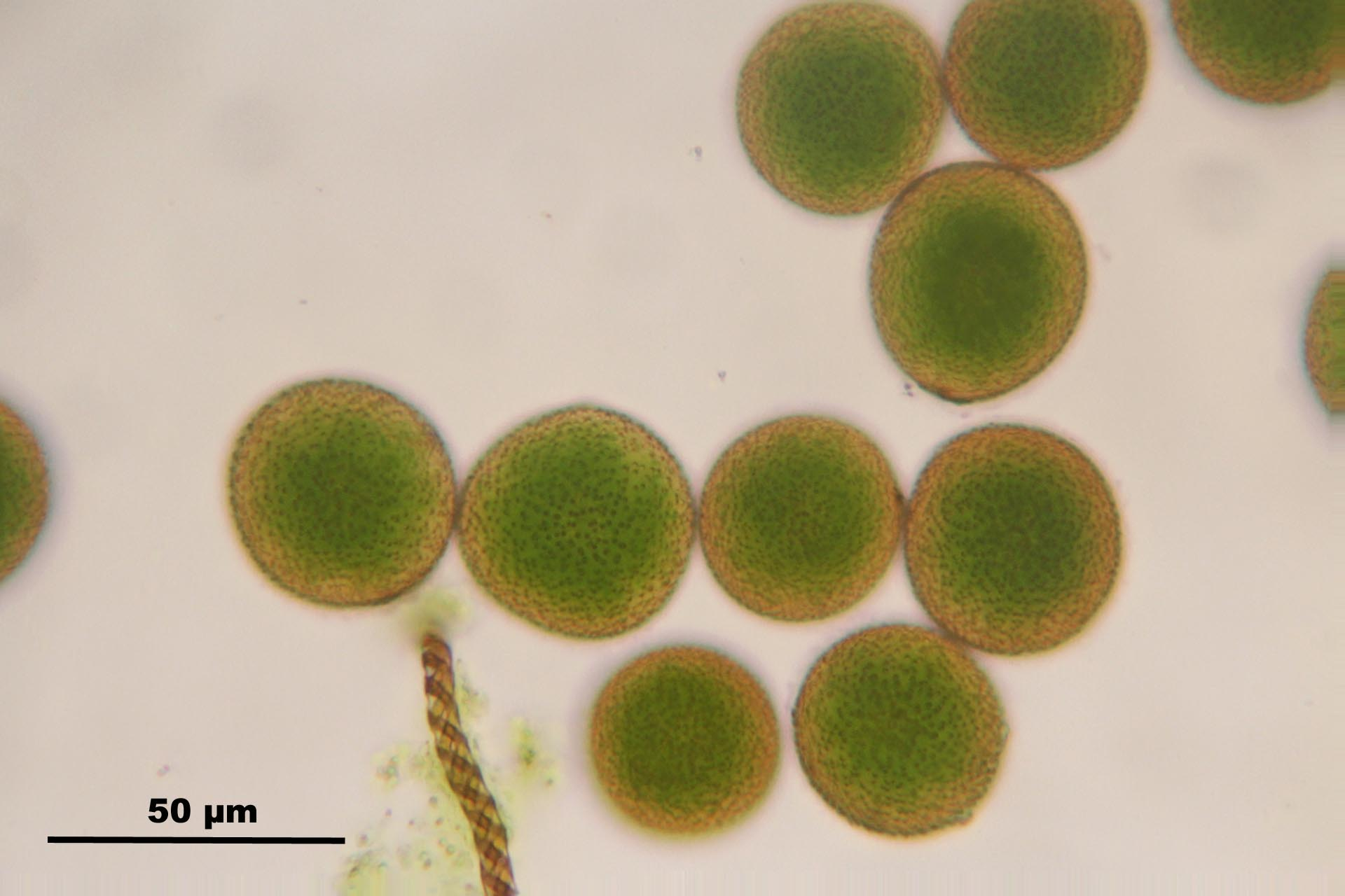 Radula complanata